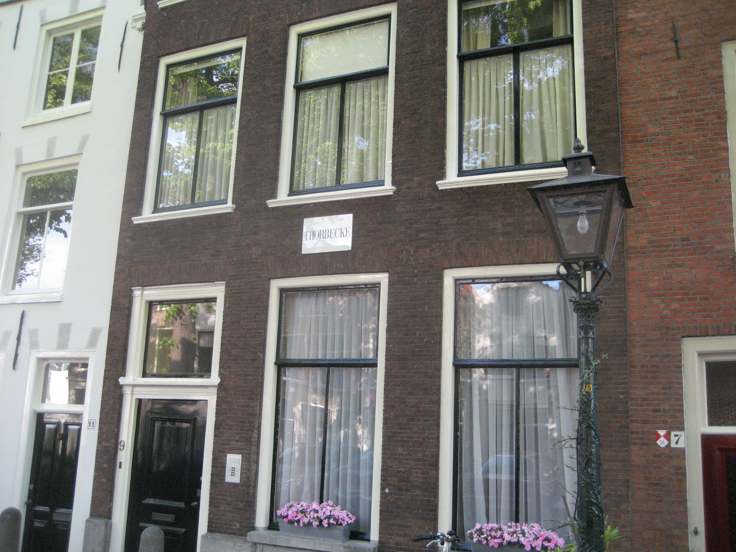 House where Thorbecke lived in Leiden and wrote the famous Dutch constitution (1848)